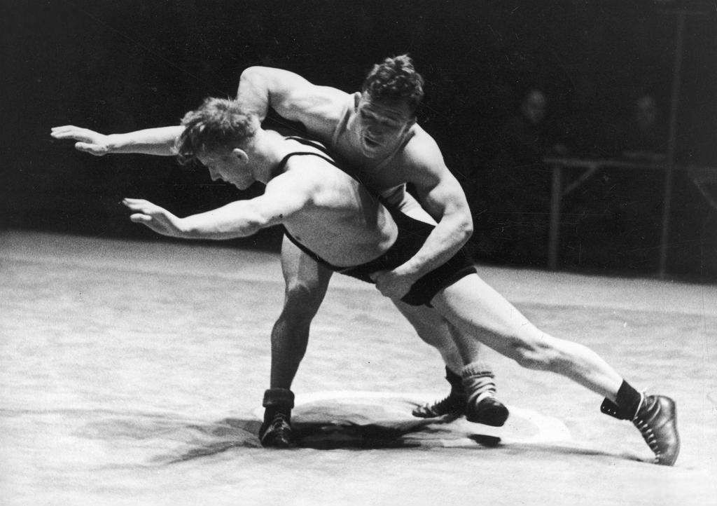 Edgar Puusepp wrestling during an International tournament in Berlin, 1939.